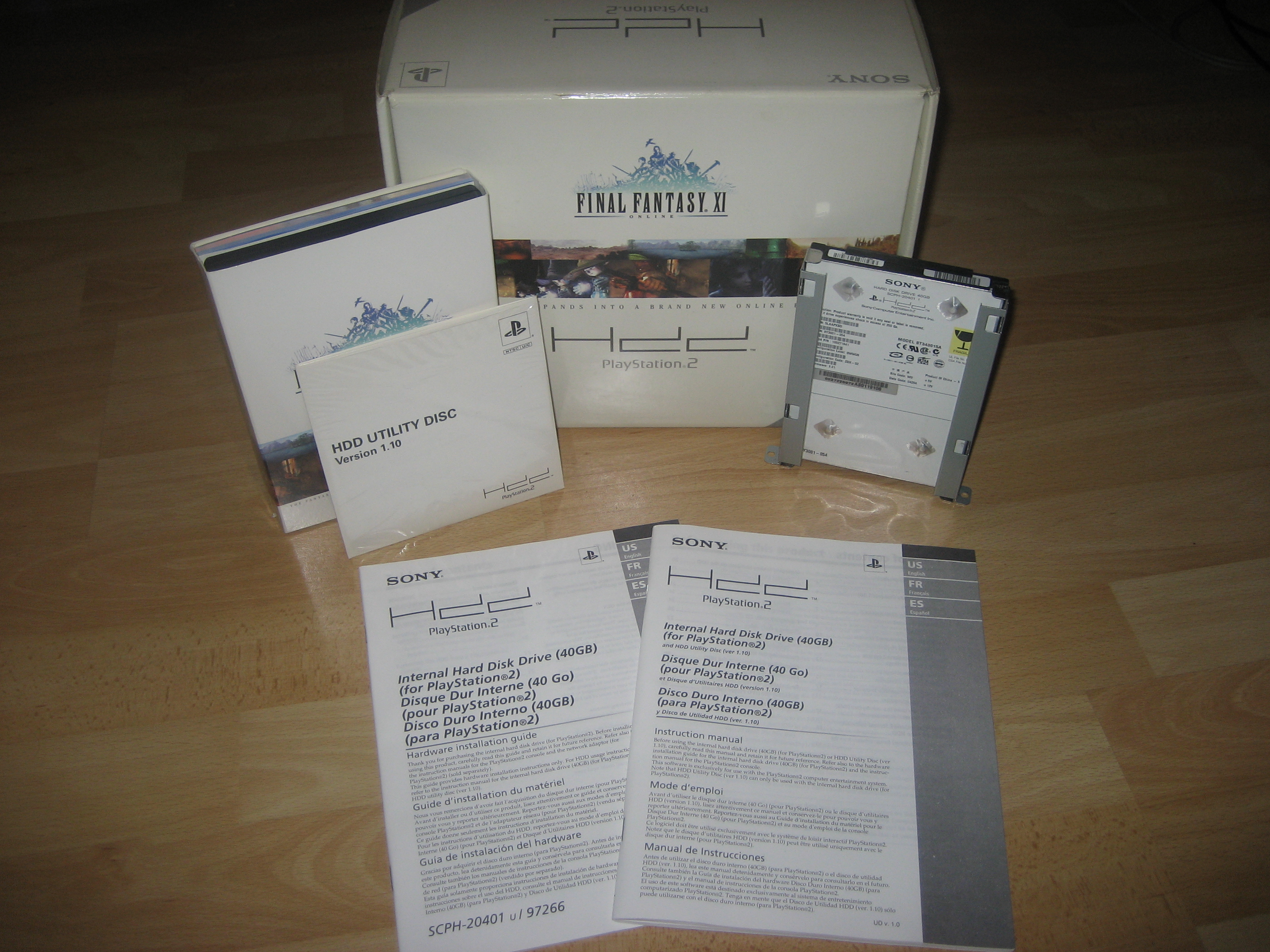 The Whole NTSC-U/C HDD-Set, Contains: HDD, HDD Utility Disc, Final-Fantasy XI + Addon + Tetra Master + Play Online Software, Installation Manuals.